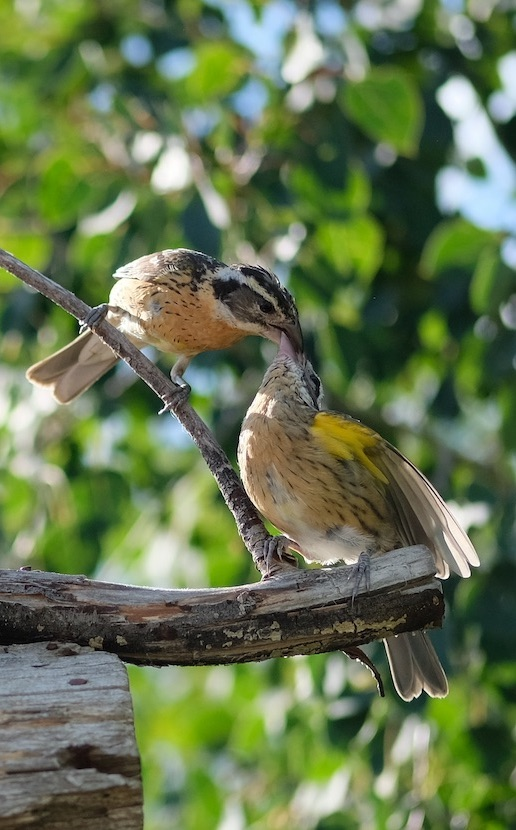 Mum feeding chick 2019, Montana, USA: more at